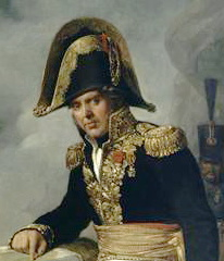 Title: "Le général Bernard-Georges-François Frère (1764-1826)". Napoleonic general of division Bernard-Georges-François Frère (1764-1826). The general is consulting a map of Poland and holds in his hand a letter signed Bernadotte, dated 1807.